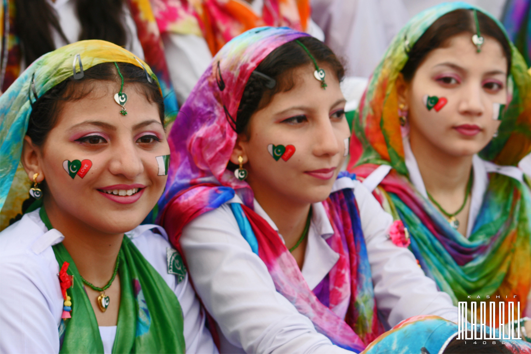 Three school girls celebrating Independence day at Tomb of Quaid, with colourful headscarves, national make-up and jewellery.